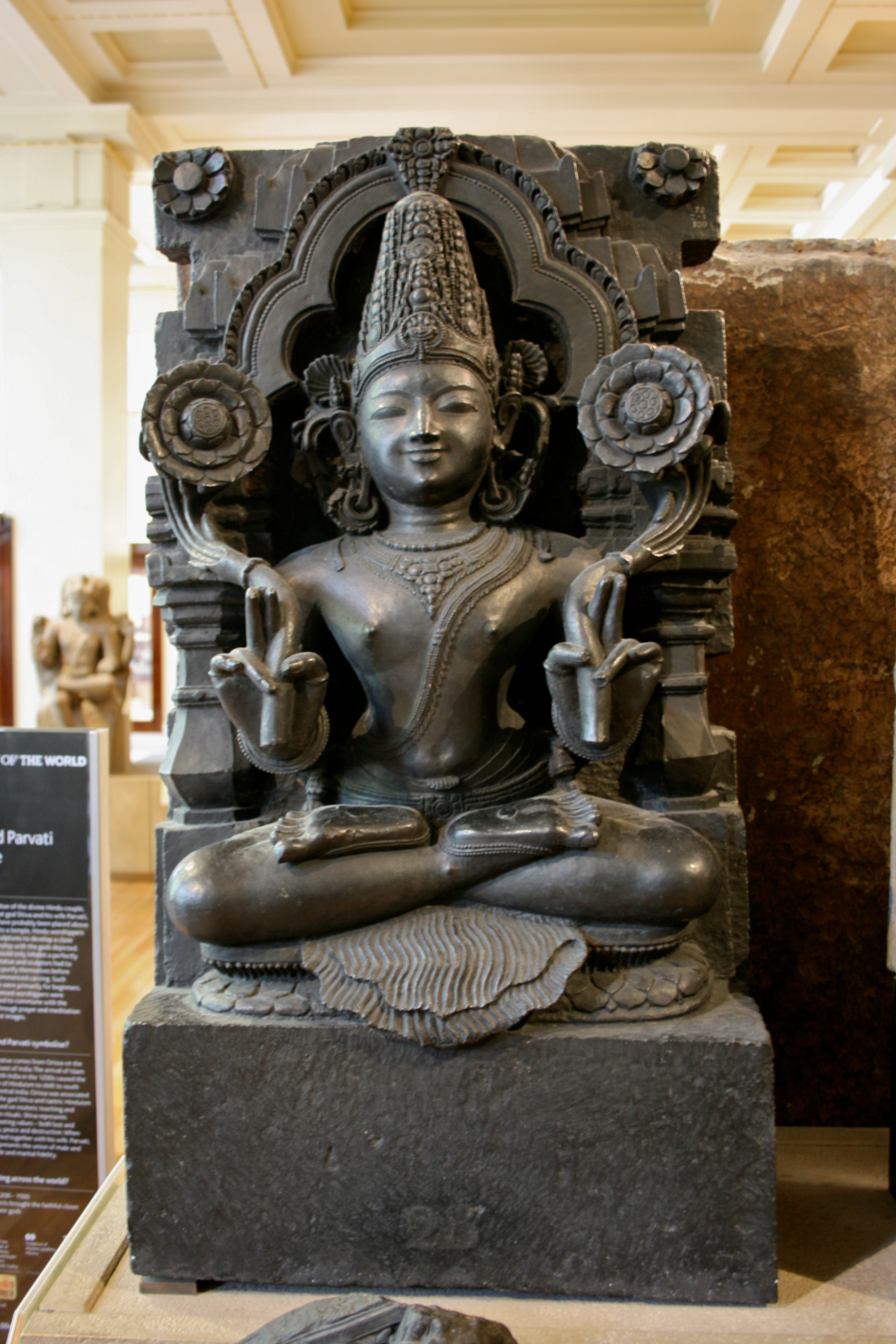 Surya, one of the nine planets. Probably from Konarak, Orissa, 13th century. Bridge Collection. Asia 1872.7-1.100. In the British Museum.